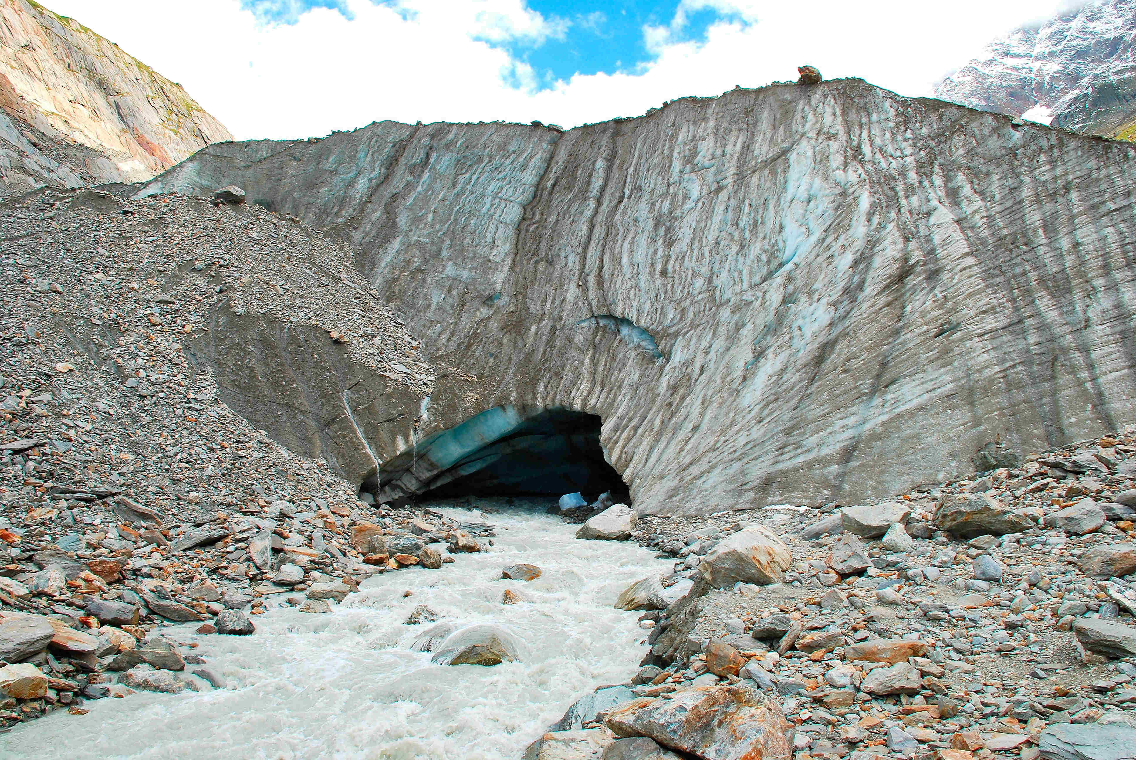 Anengletscher at Lötschental, Switzerland